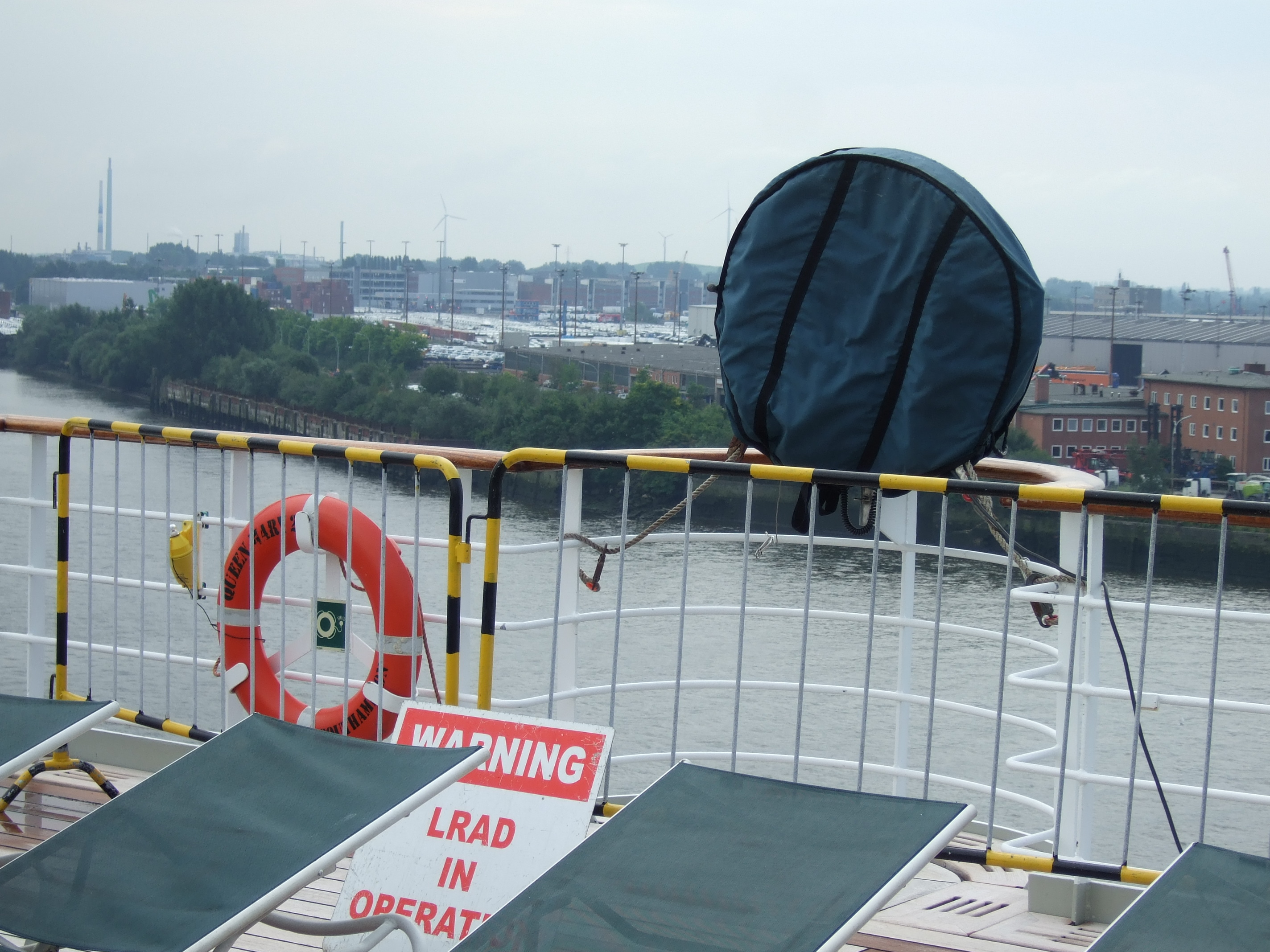 long range acoustic device (LRAD) on board QM2